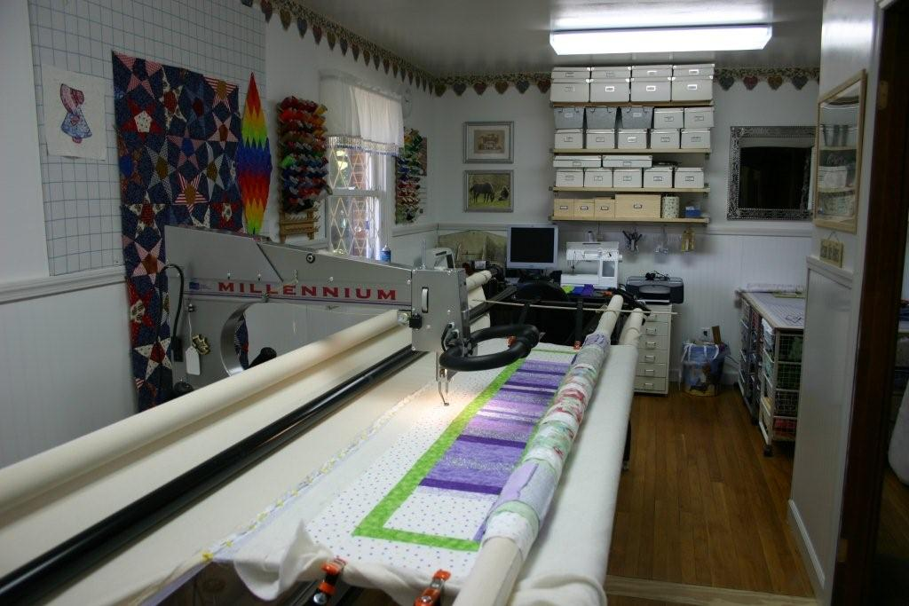 Longarm Quilting Machine with Quilt on frame